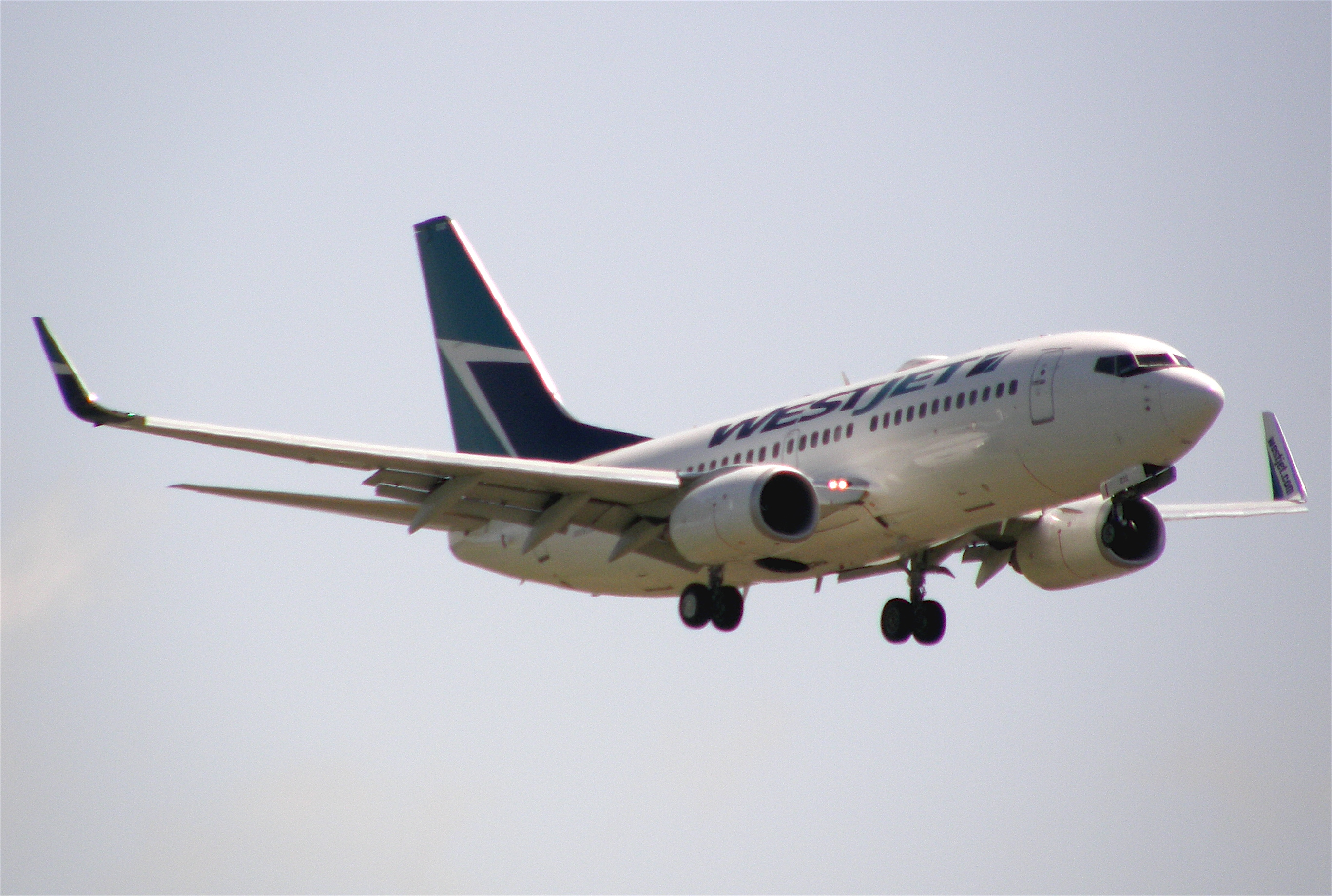 A WestJet Boeing 737 landing at Vancouver International Airport